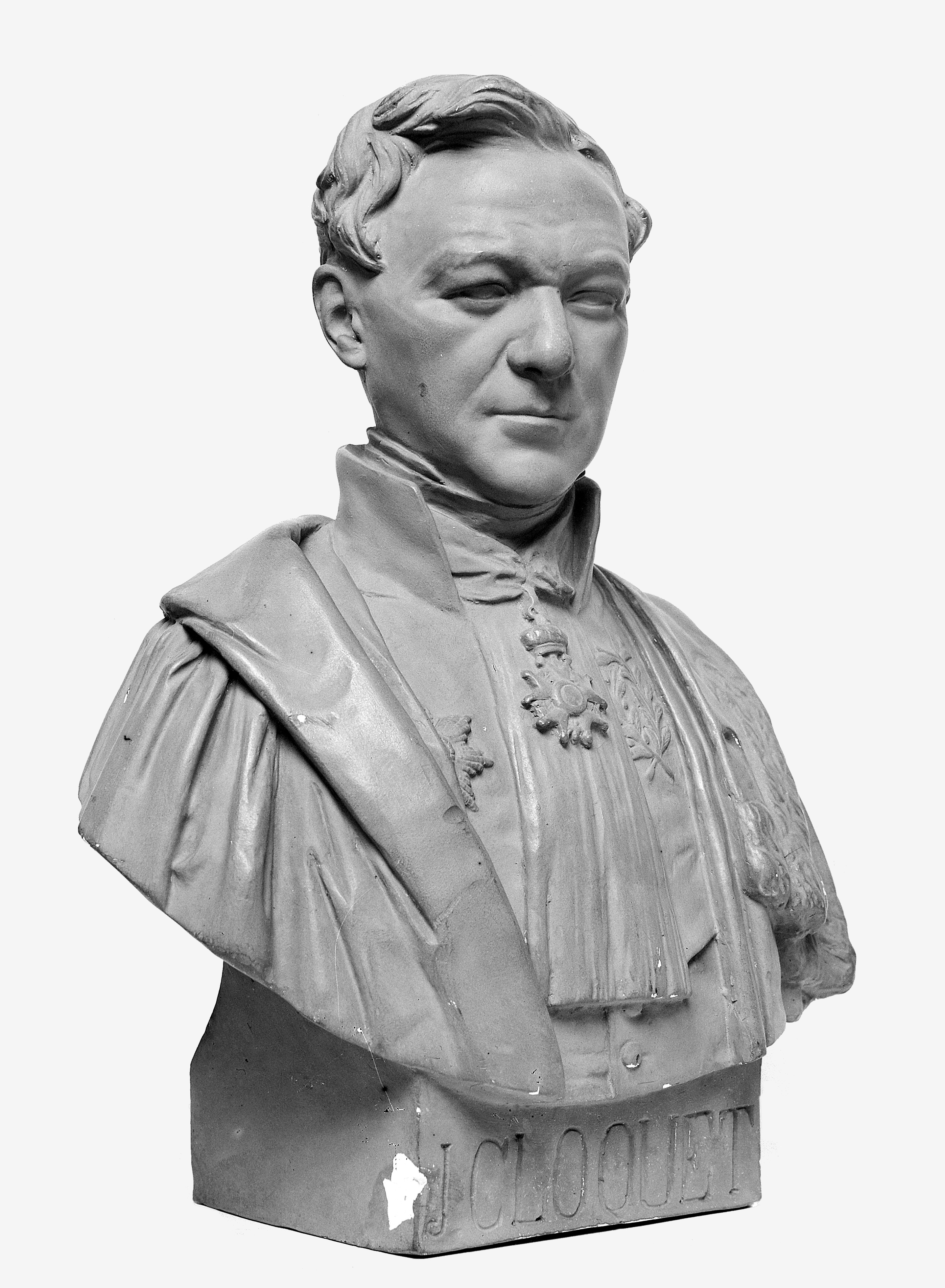 Bust of Jules Cloquet Iconographic Collections Keywords: Jules Germain Cloquet; Dantan